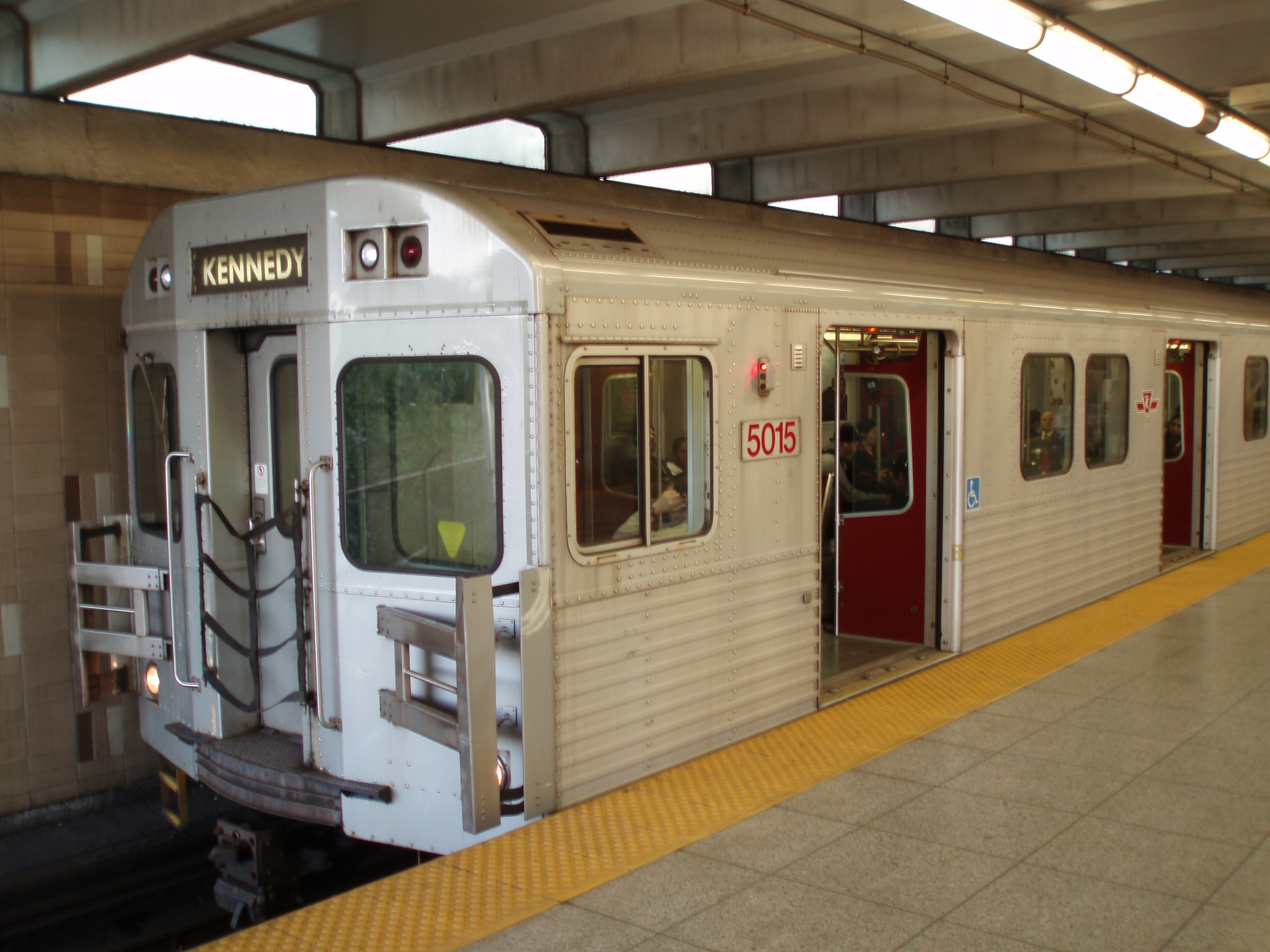 A TTC subway train at Warden station.